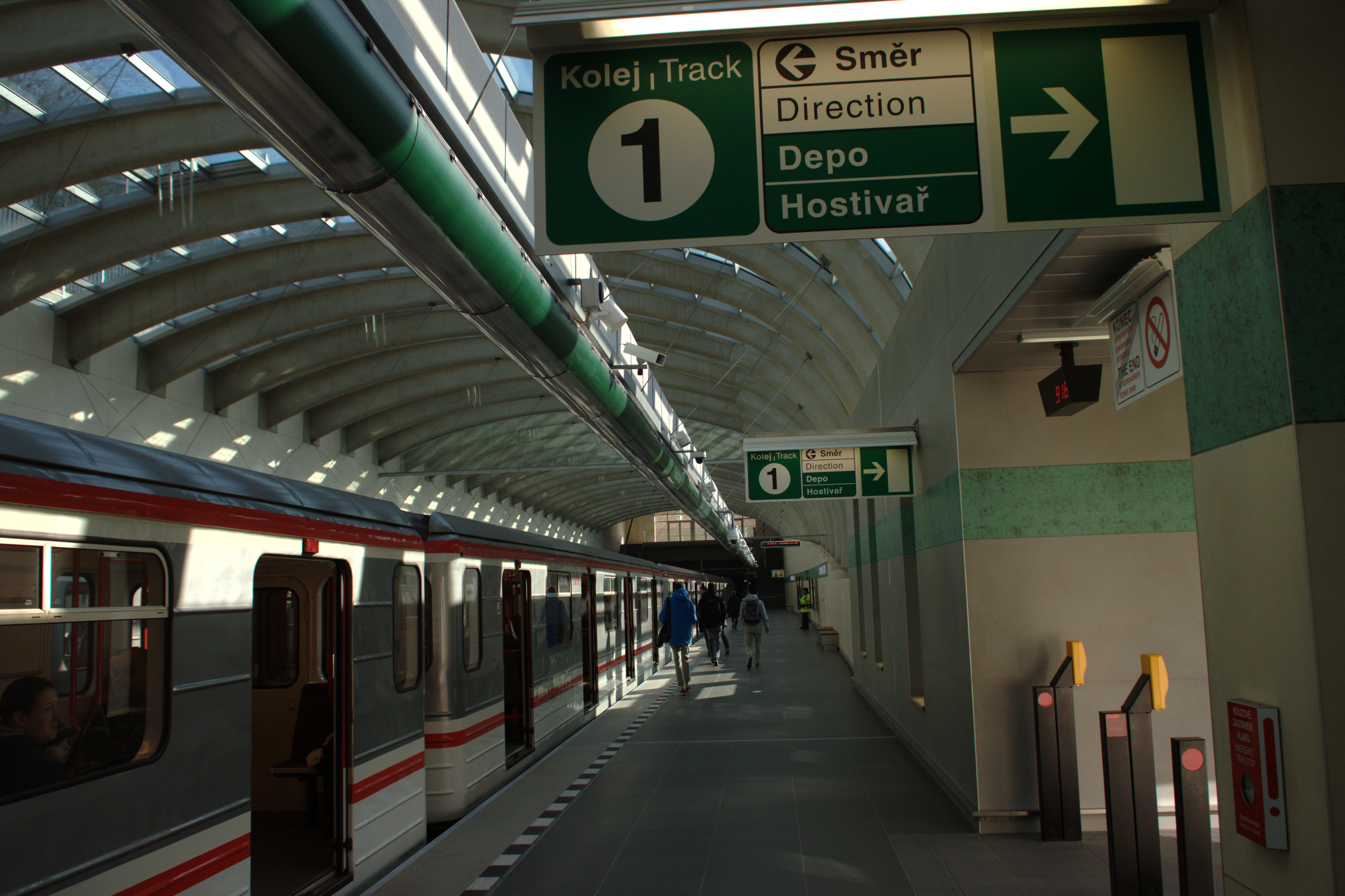 Nemonice Motol metro station platform, Prague, CZ